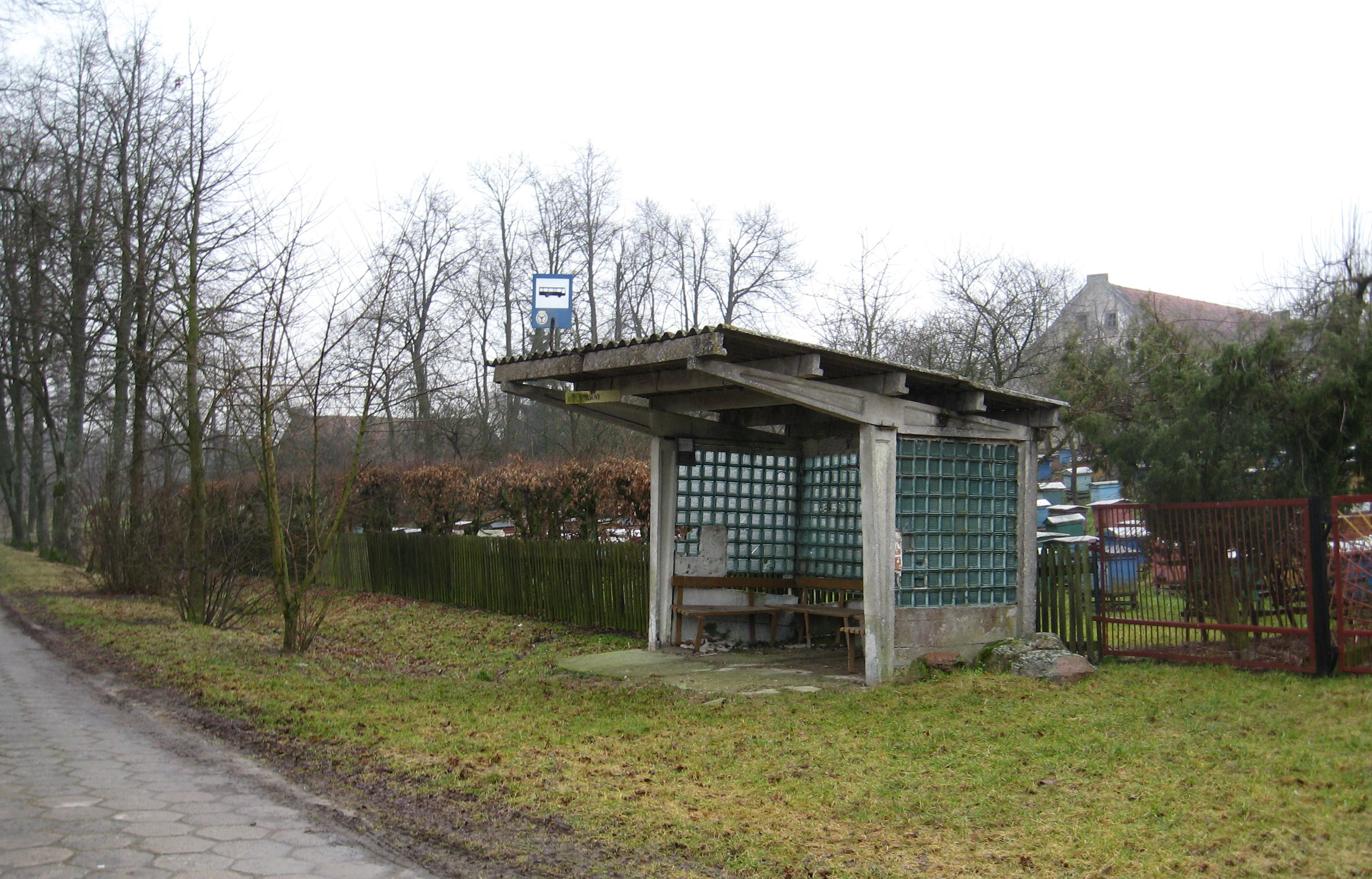 Asuny in Poland - OpenStreetMap (Info)